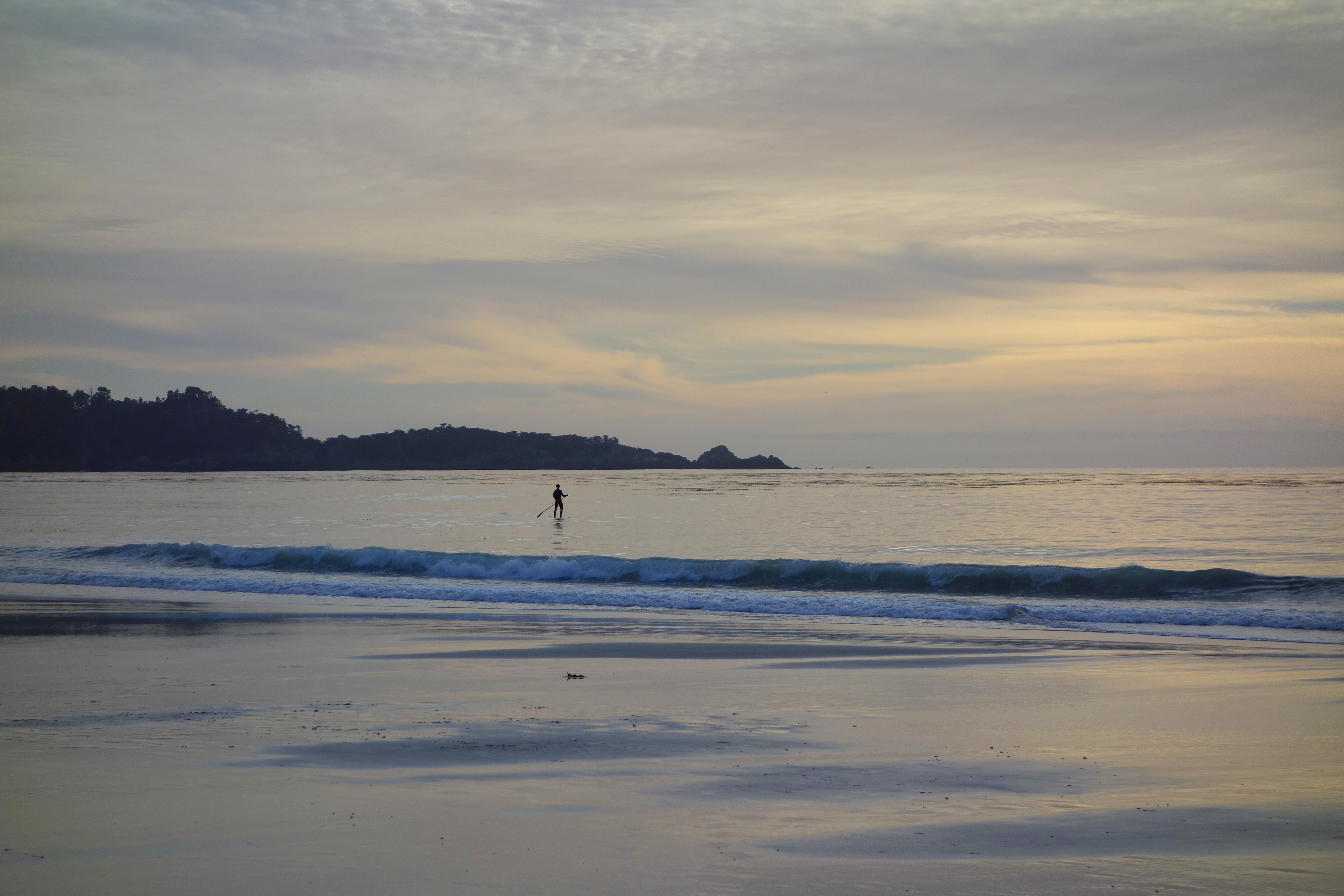 Paddle surfer off Carmel Beach - Carmel, California, USA.